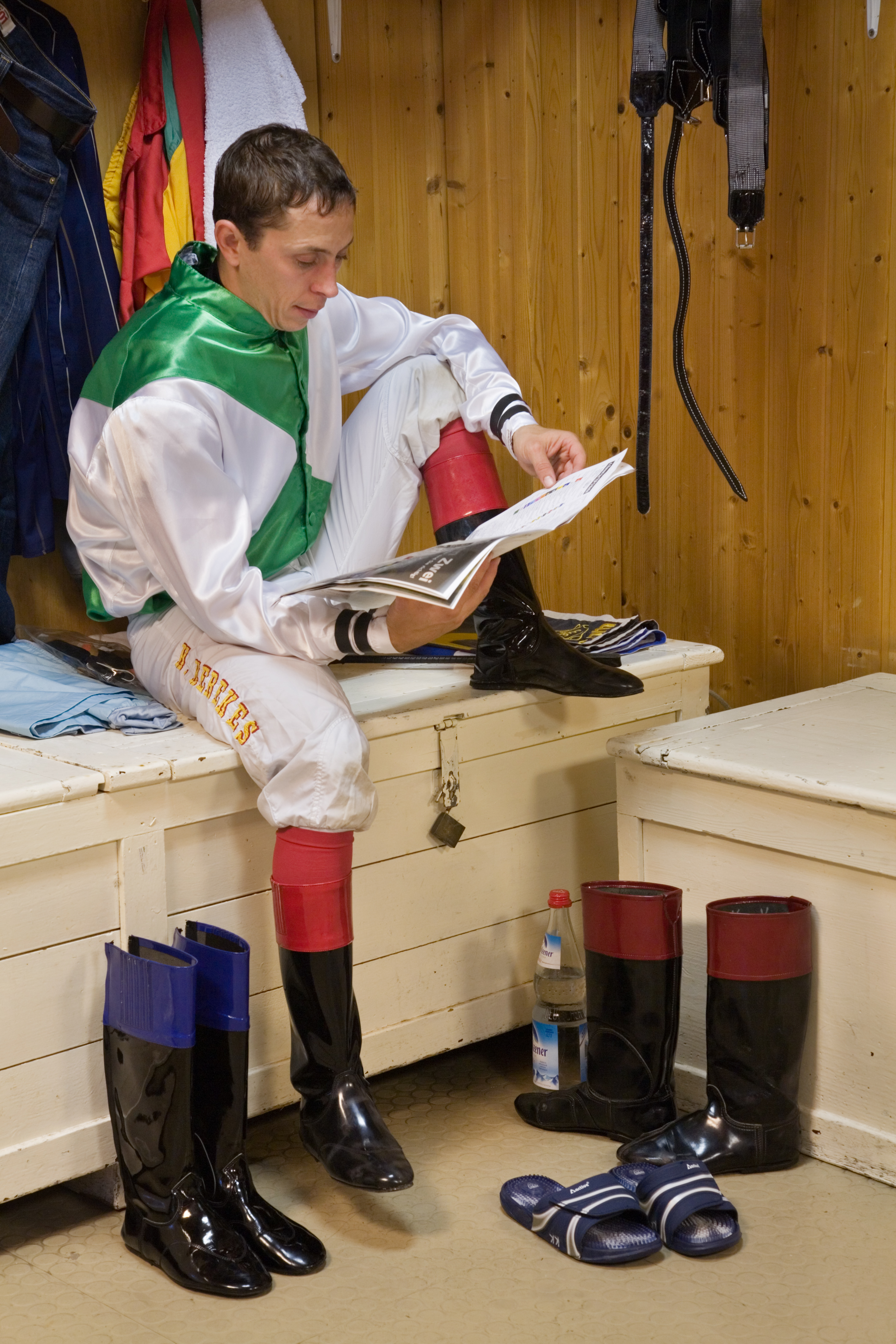 Jockey dressing room in the Galoppriem horse racing course, Munich